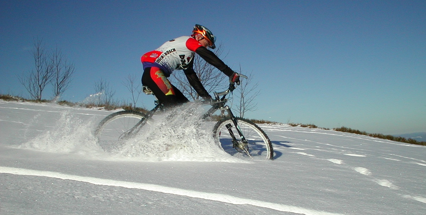 Description: A mountain bike rider in snow. * Source: Photo taken by myself at a mountain near my home in winter 2002